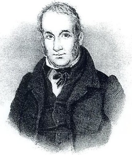 Engraving of a portrait of James Pierrepont Greaves